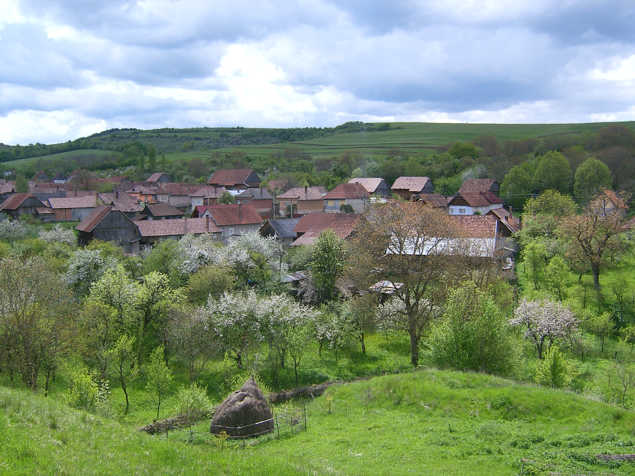 Nearşova, Cluj County, Romania